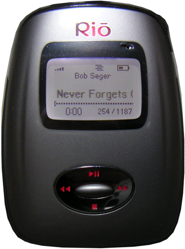 Rio Carbon 5GB model. Taken June 18, 2006.